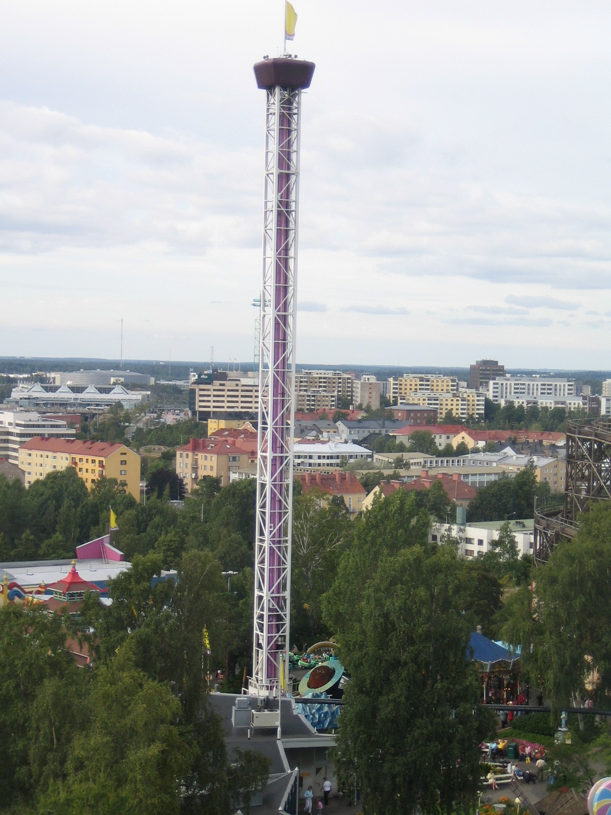 Space Shot ride in Linnanmäki amusement park in Helsinki, Finland